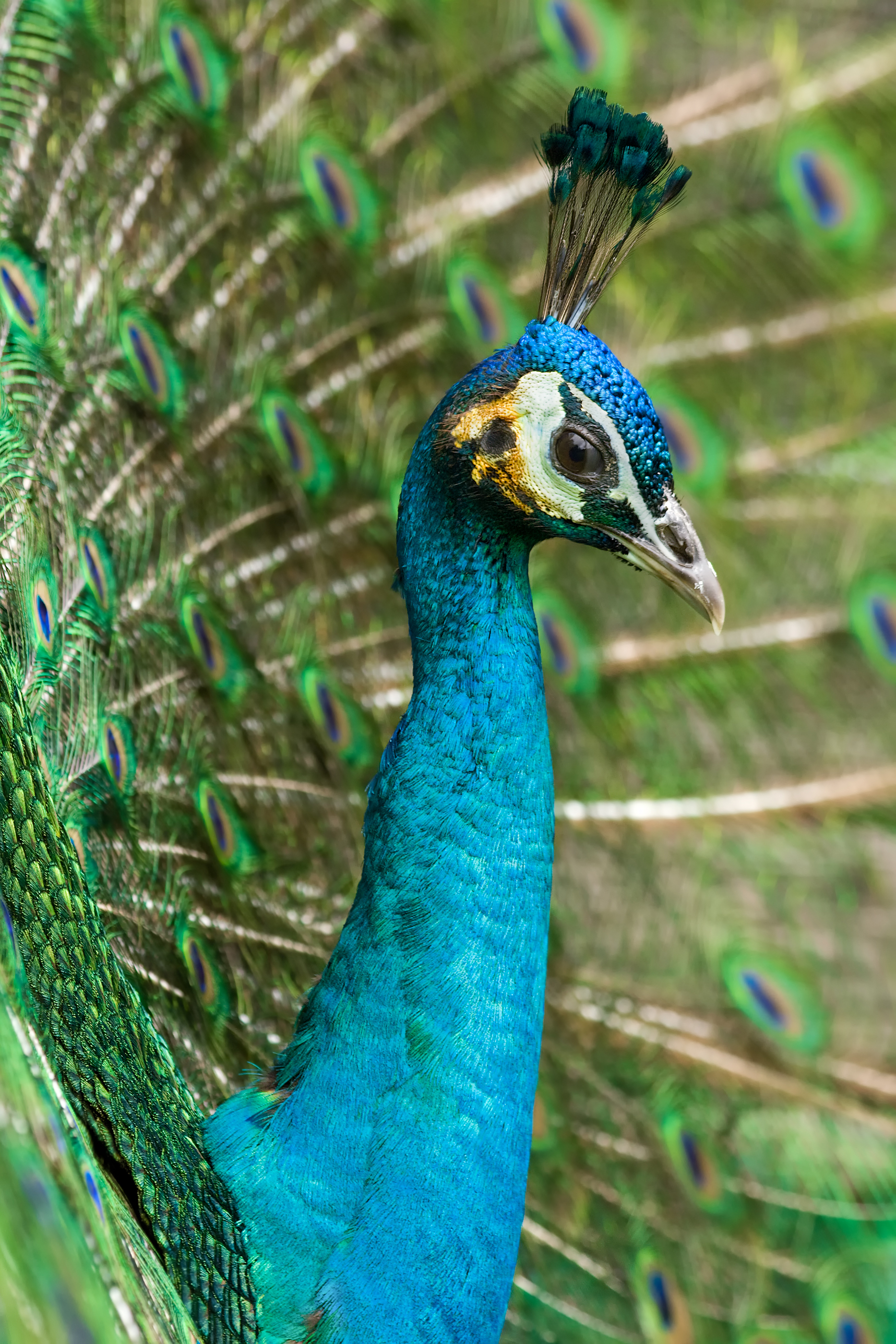 The Indian Peafowl, Pavo cristatus (from Latin Pavo, peafowl; cristatus, crested),[2] also known as the Common Peafowl or the Blue Peafowl, is one of two species of bird in the genus Pavo of the Phasianidae family known as peafowl.